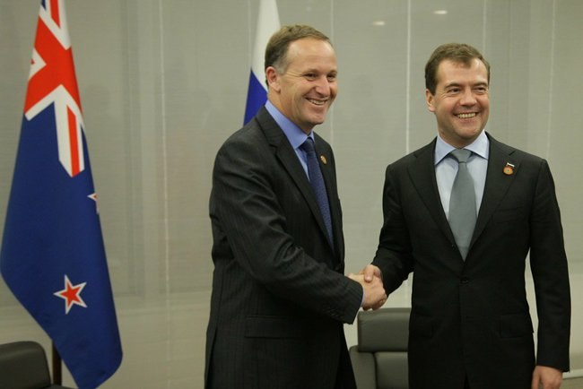 With Prime Minister of New Zealand John Key.